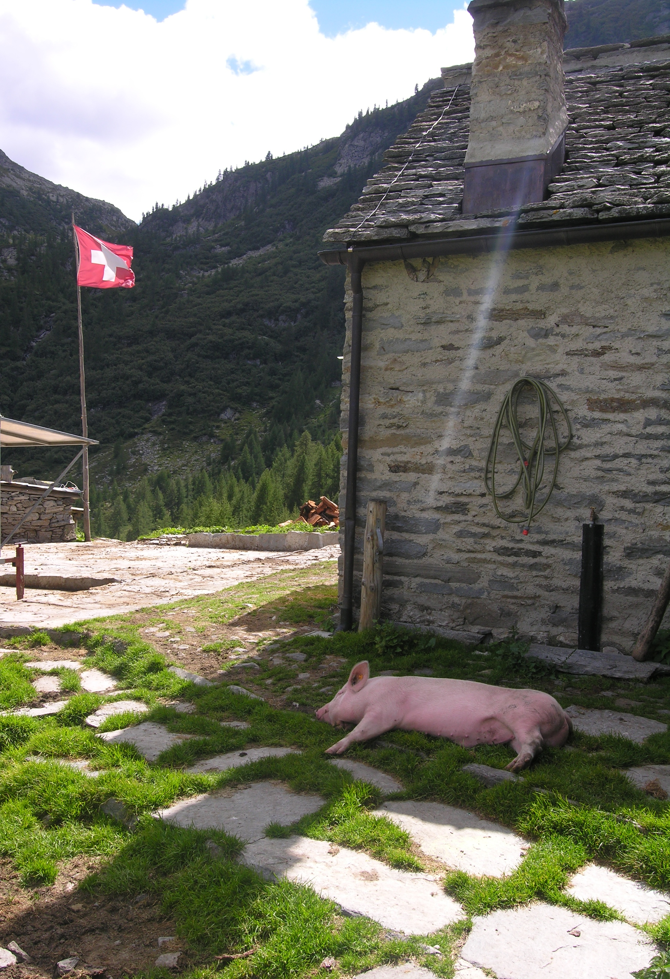 Extensive farming in the farm Alp Sfi, near Cimalmoto, Switzerland